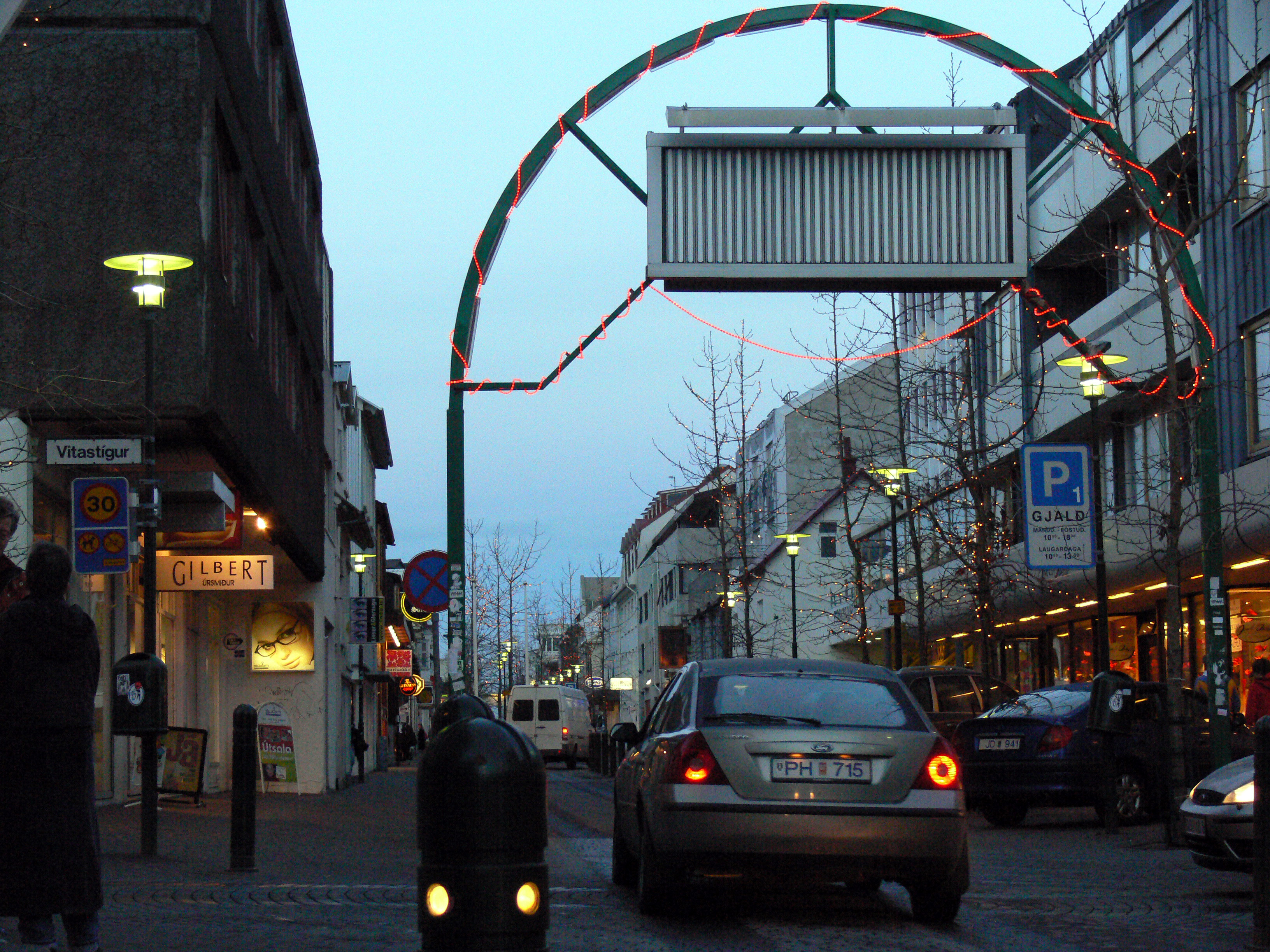 The main shopping street of Reykjavík, Laugarvegur. Author: Christian Bickel